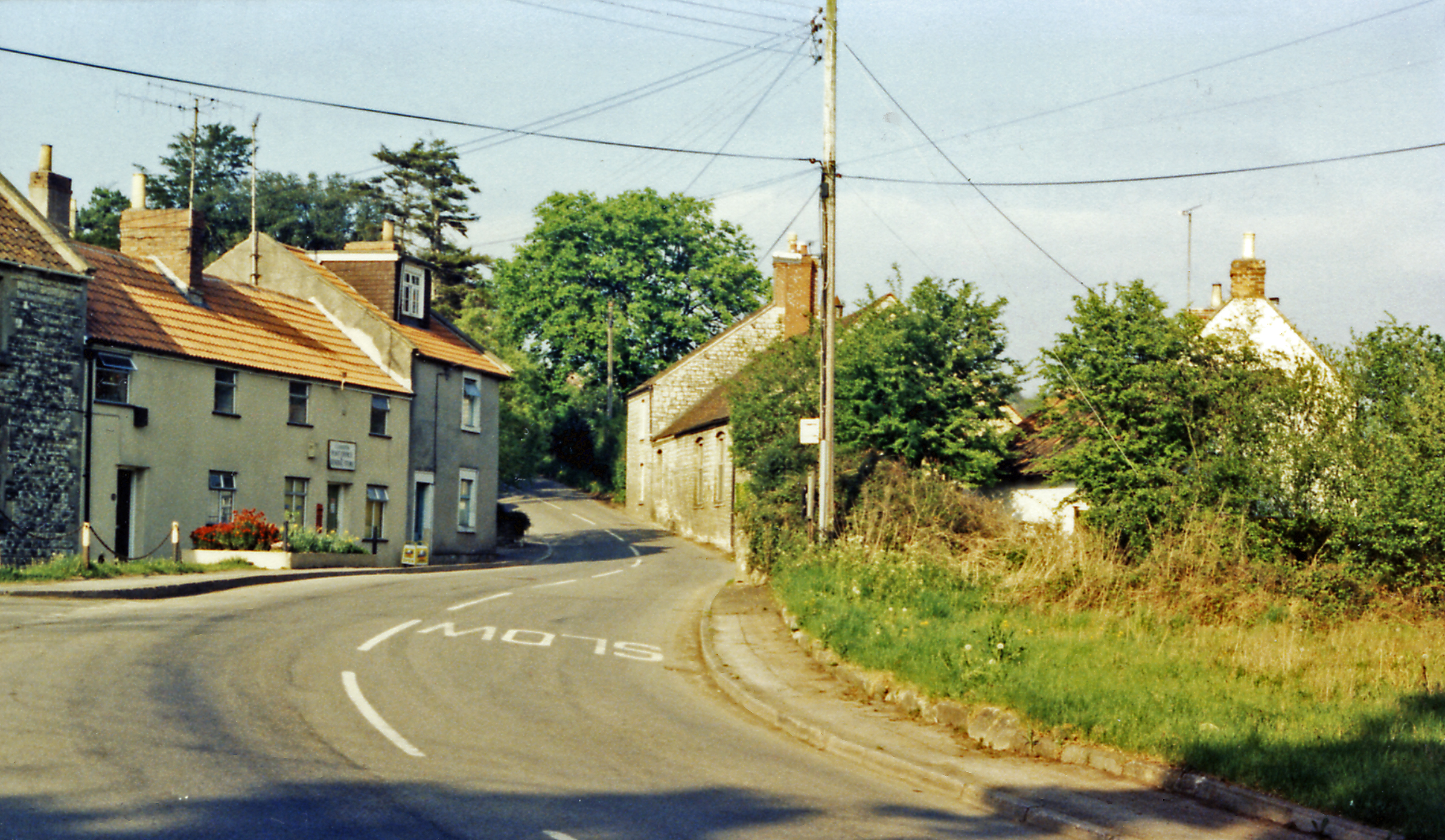 Camerton: site of station, 1987. View northward, across the course of the GWR Limpley Stoke (right) - Hallatrow (left) branch, which was closed way back on 21/9/25 - after only 15 years, to goods from 15/2/51. No trace seems to be left.